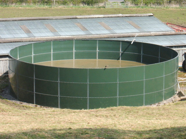 Don't jump; Haddon House Farm, Bakewell, Derbyshire, Great Britain. Duck teetering on edge of slurry container. Sensibly it decided to fly off!